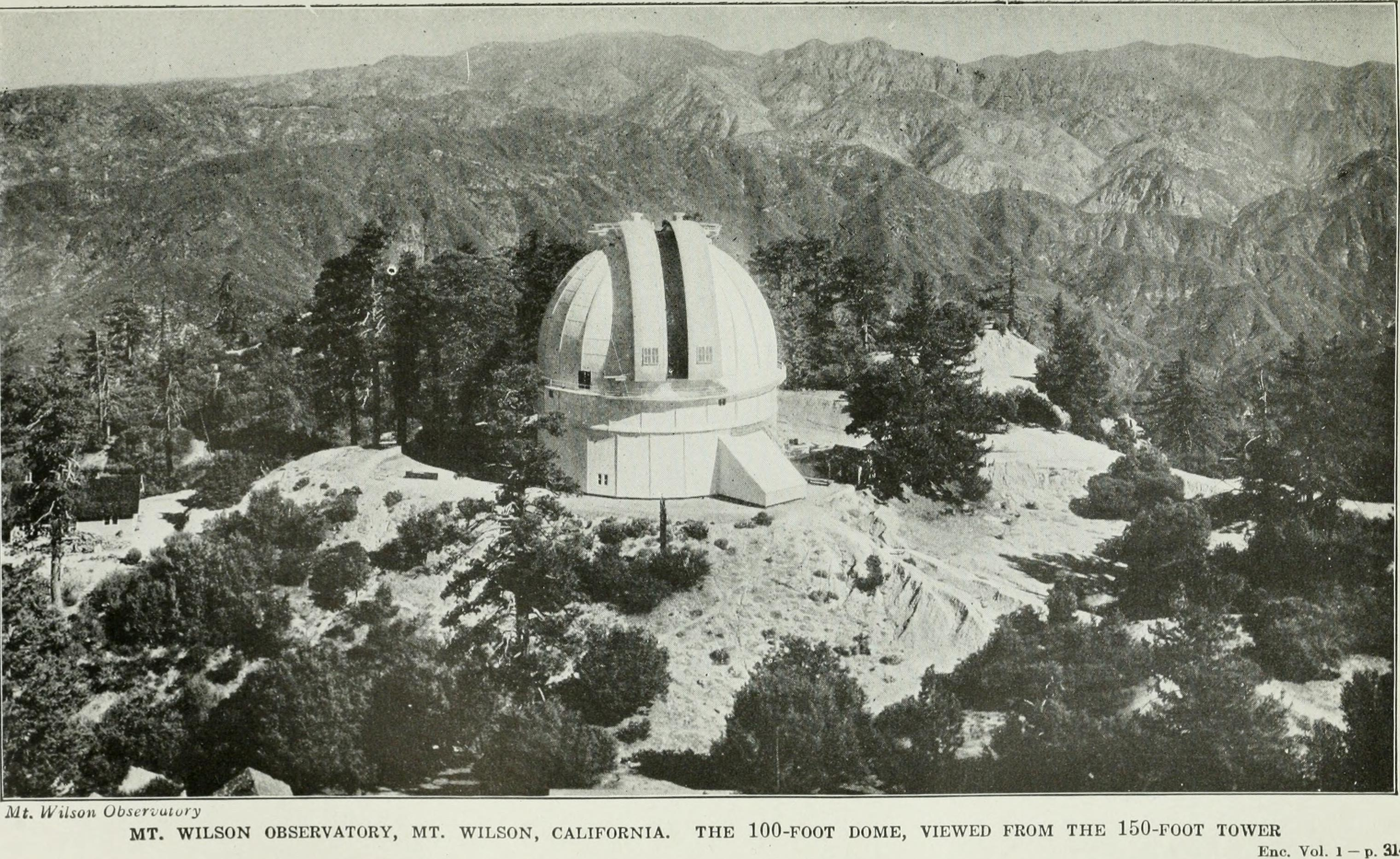 Title: Collier's new encyclopedia : a loose-leaf and self-revising reference work ... with 515 illustrations and ninety-six maps Year: 1921 (1920s) Authors: Subjects: Encyclopedias and dictionaries Publisher: New York : P. F. Collier Text Appearing Before Image: N (as-tra-kan), a Rus-sian city, capital of the government ofthe same name, on an elevated islandin the Volga. It is the seat of a Greekarchbishop and has a large cathedral,as well as places of worship for Moham-medans, Armenians, etc. The manu-factures are large and increasing, andthe fisheries (sturgeon, etc.) very im-portant. It is the chief port of the Cas-pian, and has regular steam communi-cation with the principal towns on itsshores. Pop. about 150,000, composed ofvarious races. The government has anarea of 91,327 square miles. It consistsalmost entirely of two vast steppes, sep-arated from each other by the Volga,and forming for the most part arid,sterile deserts. Pop. about 1,350,000. ASTRAKHAN, a name given to sheep-skins with a curled woolly surface ob-tained from a variety of sheep found inBokhara, Persia, and Syria; also arough fabric with a pile in imitation ofthis. ASTRINGENTS, substances whichproduce contraction and condensationof the muscular fiber: for instance, when Text Appearing After Image: '